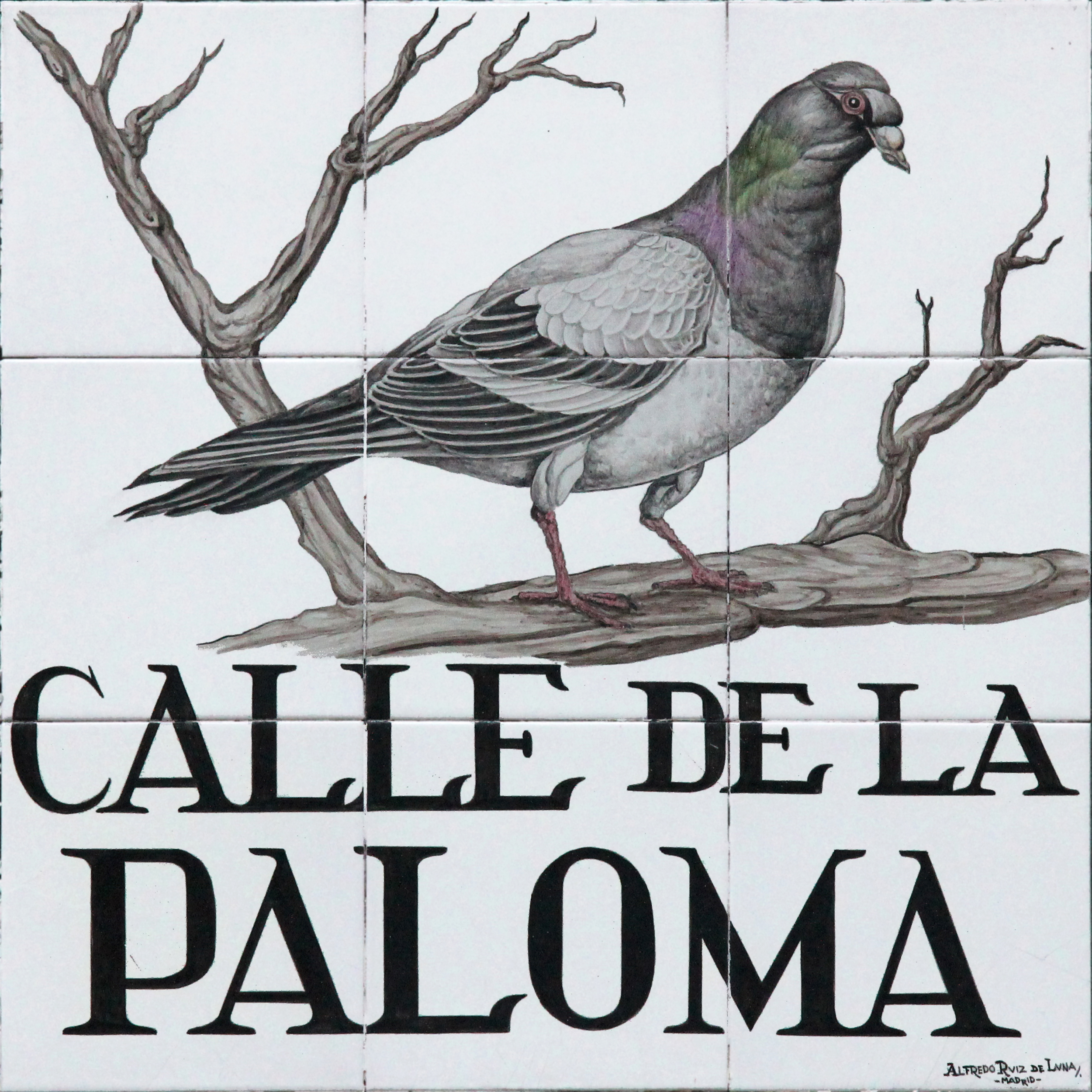 Sign of Calle de la Paloma (street) in Madrid (Spain).